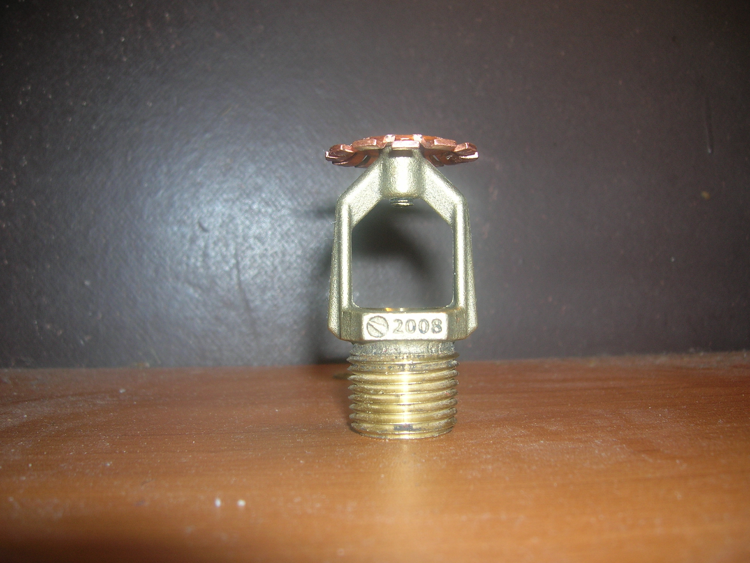 Sprinkler without mercury